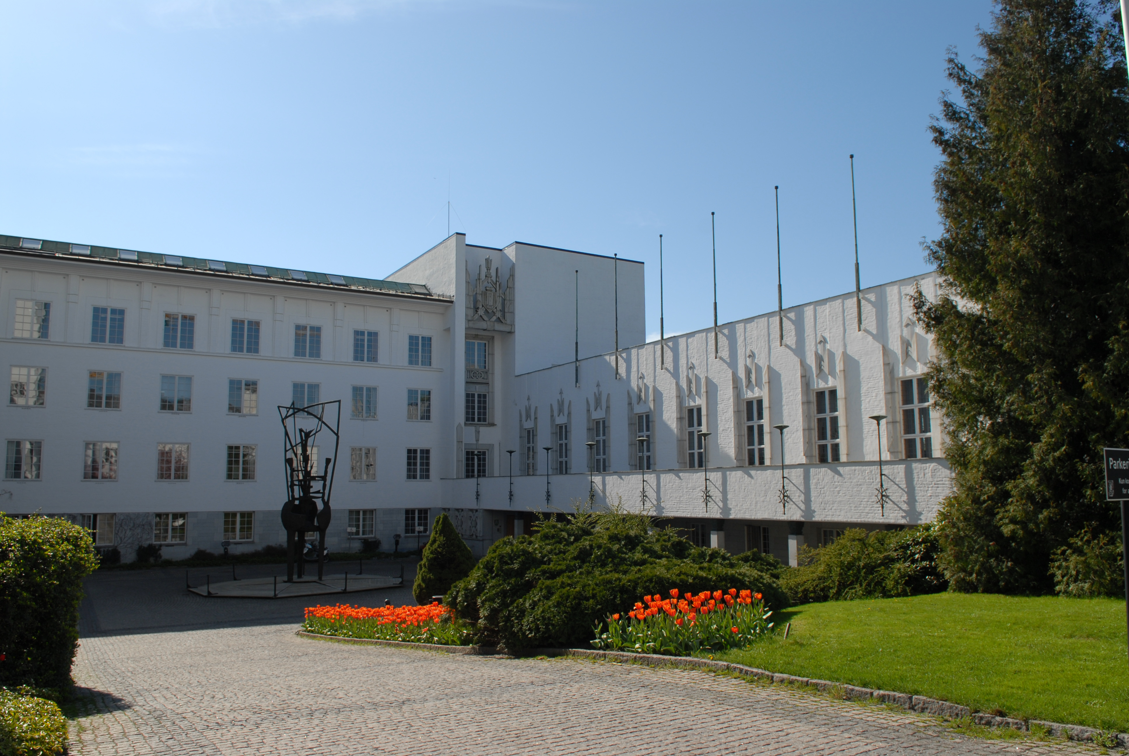 The courtyard at Town Hall in Sandvika, Bærum. The statue in the centre is called "The elements" and is made by Arnold Haukeland.